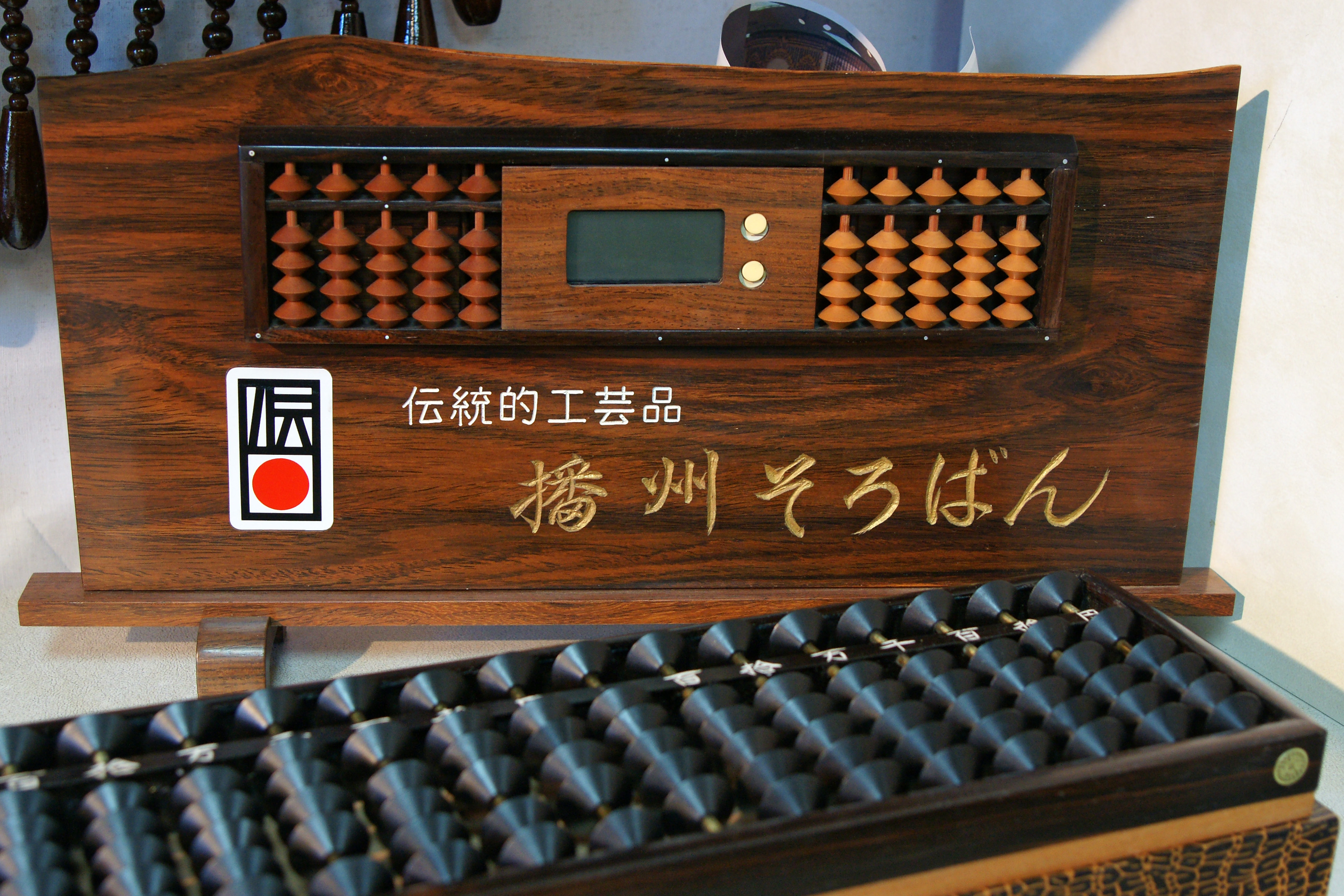 Ono City Tradition Industrial Hall in Ono, Hyogo prefecture, Japan.